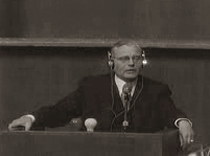 Hans Bernd Gisevius testimony at Nuremberg Trial, Story RG-60.2867, Tape 2357